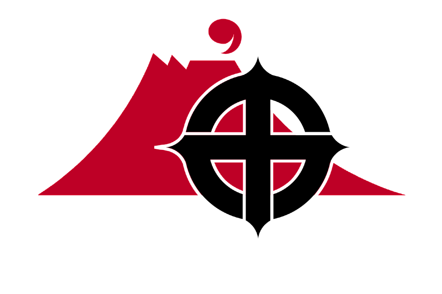 Flag of Kagoshima, Kagoshima